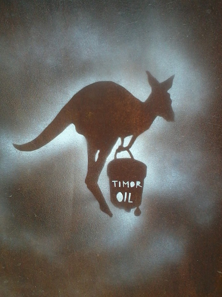 Picture of graffiti protesting the Australia-East Timor oil treaty